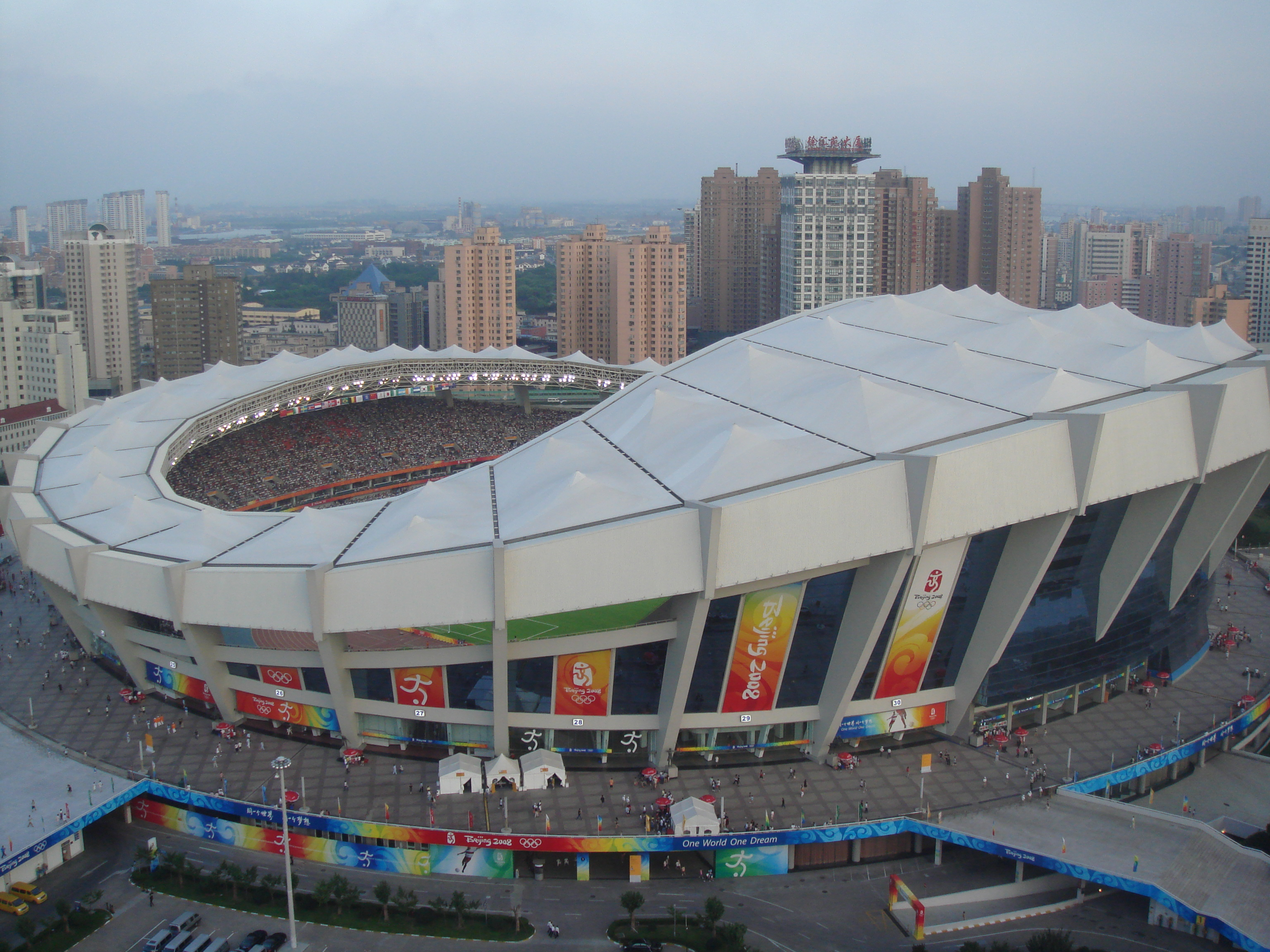 A photograph of Shanghai Stadium which was taken by myself from a nearby apartment building. The photograph was taken on the 7th of August, during the 2008 Summer Olympics preliminary football match between Australia and Serbia. Bân-lâm-gú: Siōng-hái Thé-io̍k-tiûnn. 上海體育場